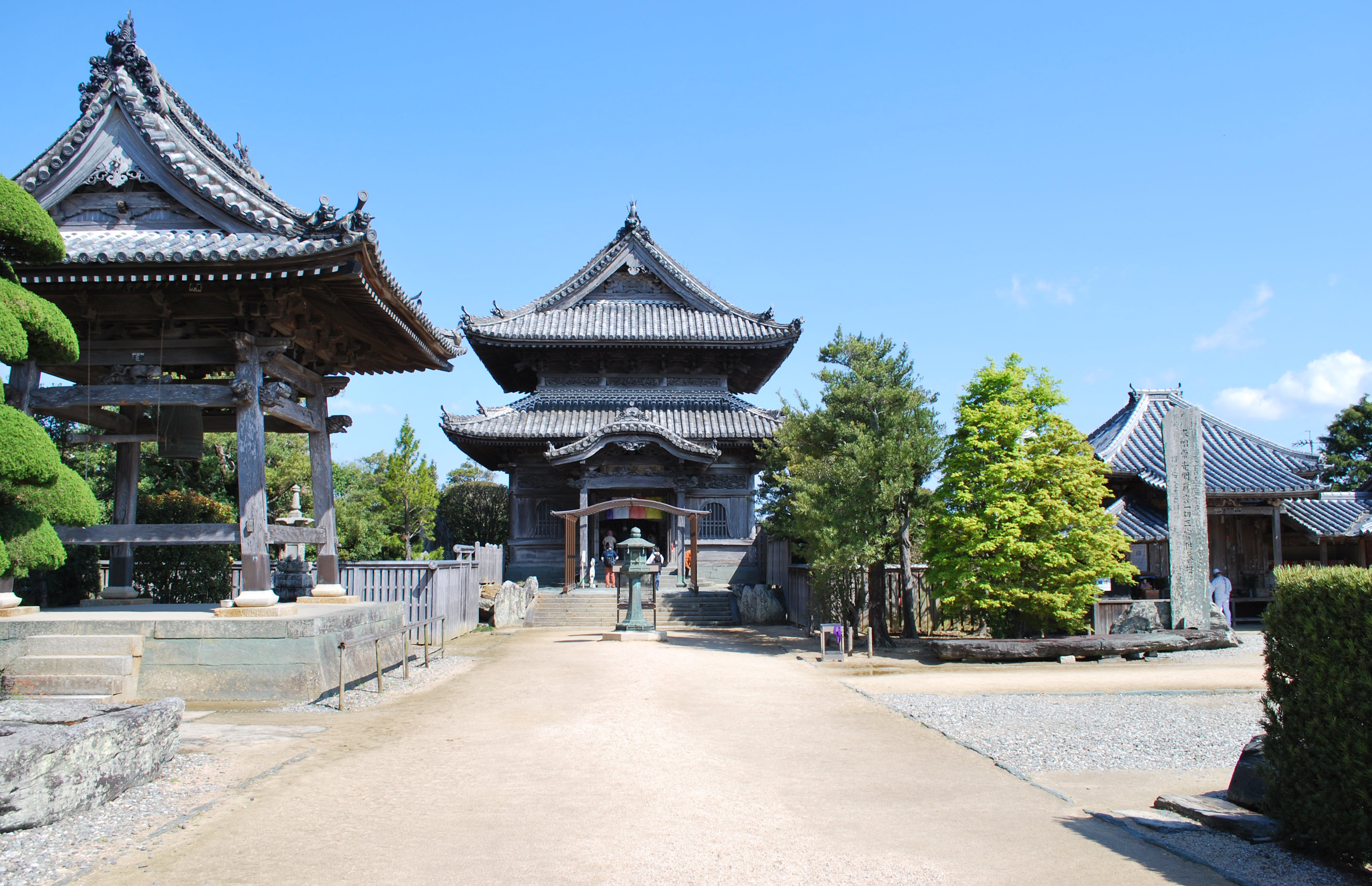 Awa Kokubun-ji temple